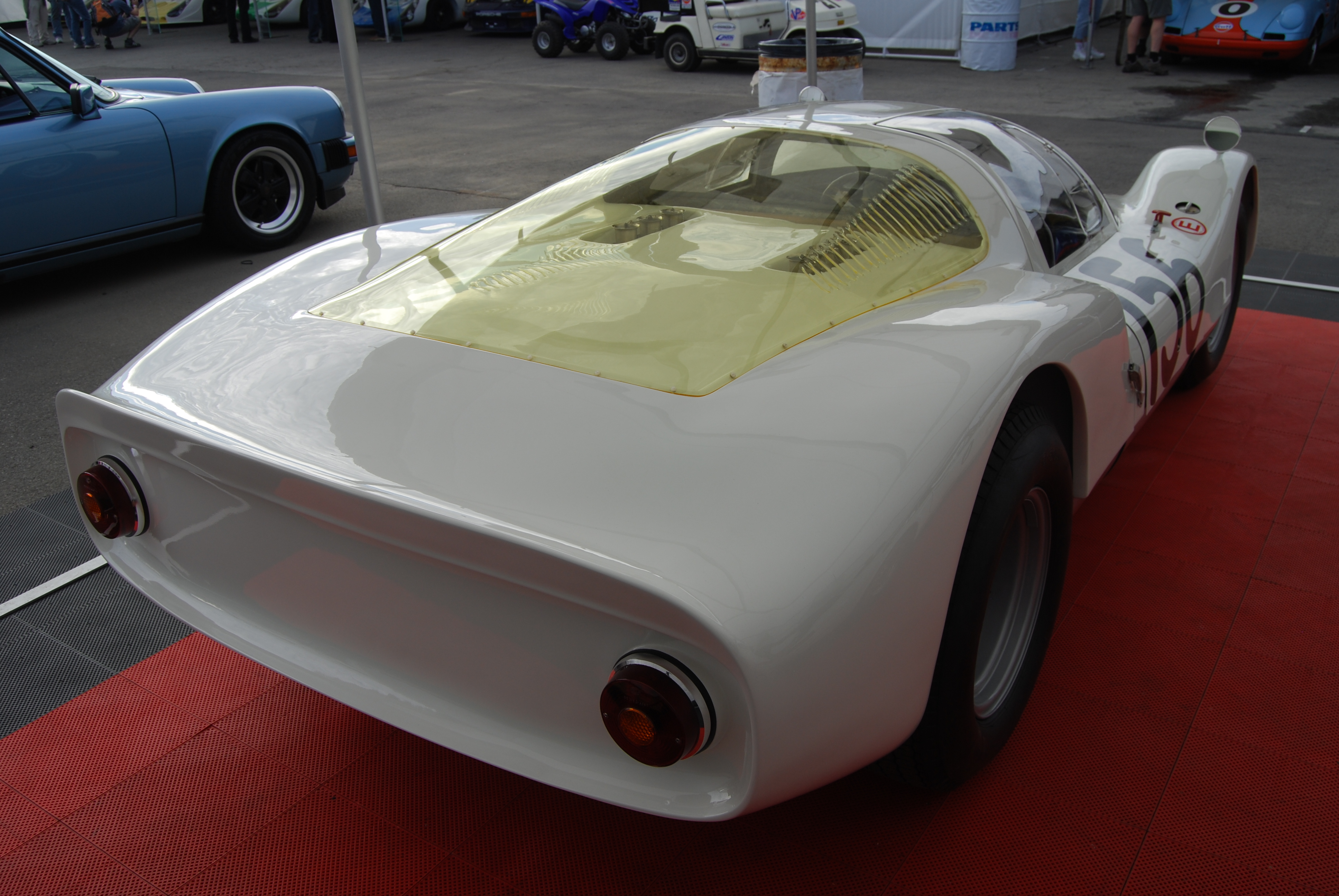 I imprinted on these when they came out- I was 10. Though they are the most delicate-looking of cars, the factory team won at Targa Florio in 1966, hence the 911 "Targa". The 906 took the 911's engine, lightened and tuned by the racing department to weigh less than the old 4 cam Carrera. The 906 version made twice as much hp as the mass-market car. 50 906s were sold to customers and at least one was picked up at the Porsche factory, driven to Le Mans as engine break-in, and run in the 24 hour race there. For a racing car they are durable, efficient and uncomplicated, but you have to remove the engine from the car to change spark plugs. The only luggage space is the passenger's seat, footwell, and the ACO-mandated "suitcase" volumes in the back. Stylistically and mechanically the 906 is an improvisation- the 15 inch wheels and the moving parts of the suspension are 904 Carrara GTS parts, by economic necessity. The flat top and sides of the cross sections are unrefined. Drivers complained that they couldn't see around or over the front fenders. (910, 907 and 908 would have 13" wheels…) The yellow tinted (?) cover over the engine was more a romantic hold-over than the 904's flat back window and 'sails' And yet, it still moves for me. What a pretty car! The tension between swoopy profile and square cross section, the all curved green house and the all square opaque body, the saw-kerf-like openings for the completely faired headlights versus the protruding, round tail-lamp assemblies, with cary the only shiny trim on any part of the body… This is a visually stimulating, easily identifiable, car. It looked modern then, it looks modern today. The austere German style calls up more space-ship/rocket plane/warbird purposefulness than a room full of Lamborghinis and post-"E" type Jaguars. The wedge shape at the center of the body recalls and puts a halo over the 901/902 aka 911/912 And yet, like a Paul Simon song, it seems so simple, so un-artful. 06d11_DSC_0470